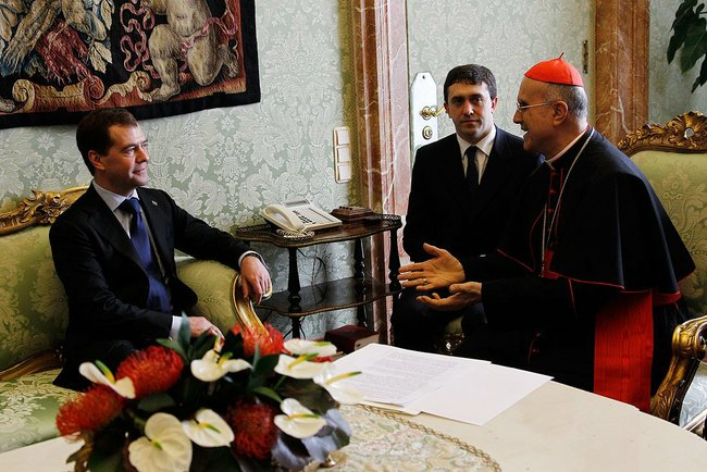 Meeting with the Vatican Secretary of State Tarcisio Bertone